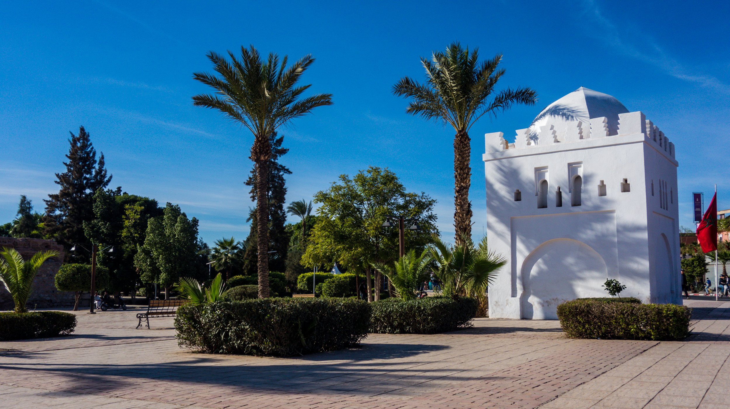 Morocco - Marrakech - P1